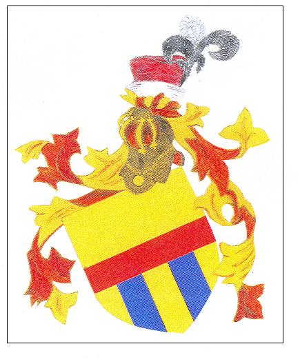 Coat of arms of the Holtrop family. It was described in the 1940s in the family paper Holtrop News.